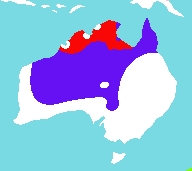 Map of Australian Aboriginal languages